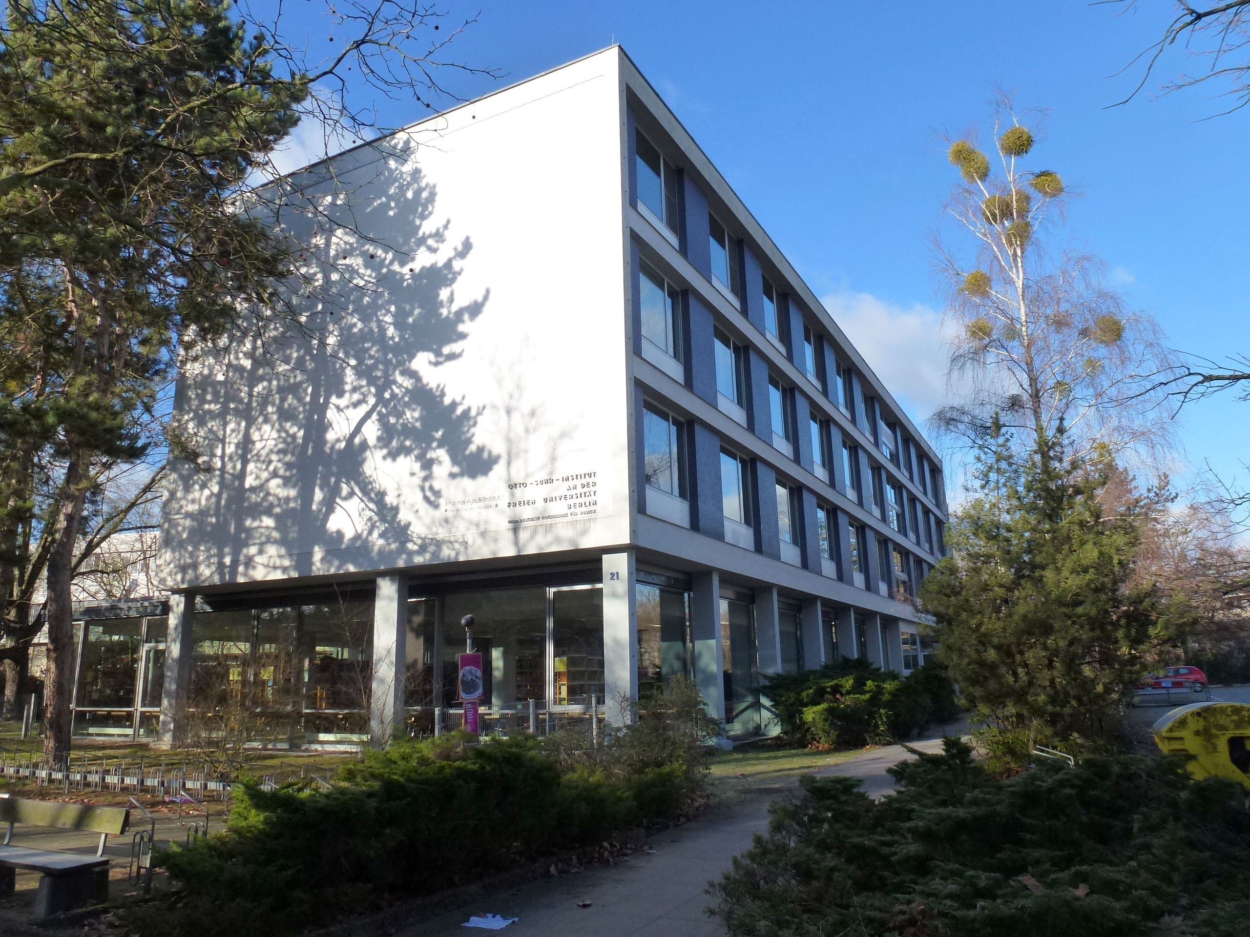 Berlin-Dahlem Ihnestraße Otto-Suhr-Institut